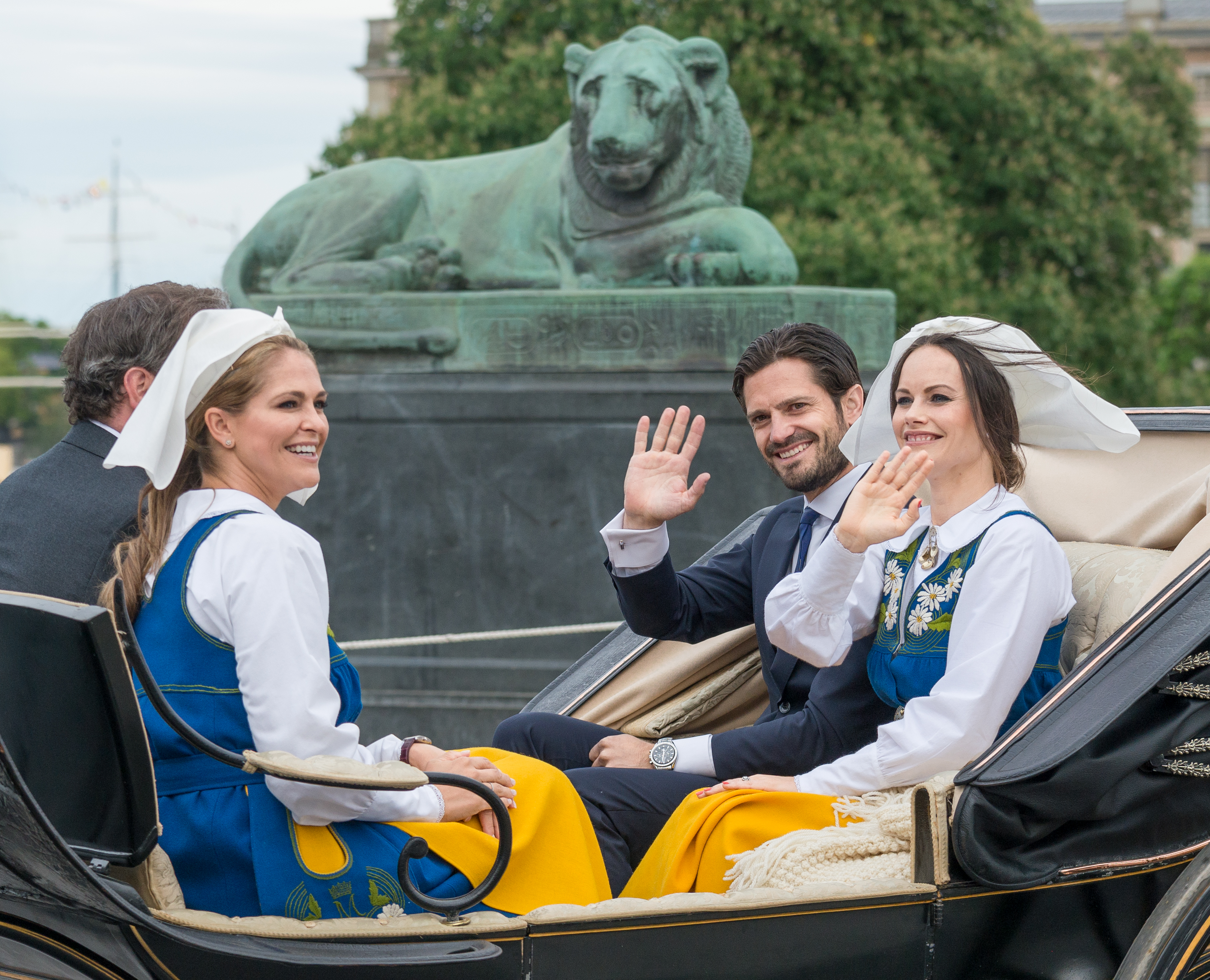 Princess Madeleine, Christopher O'Neill, prince Carl Philip and princess Sofia during the National Day in Sweden, June 6 2018.